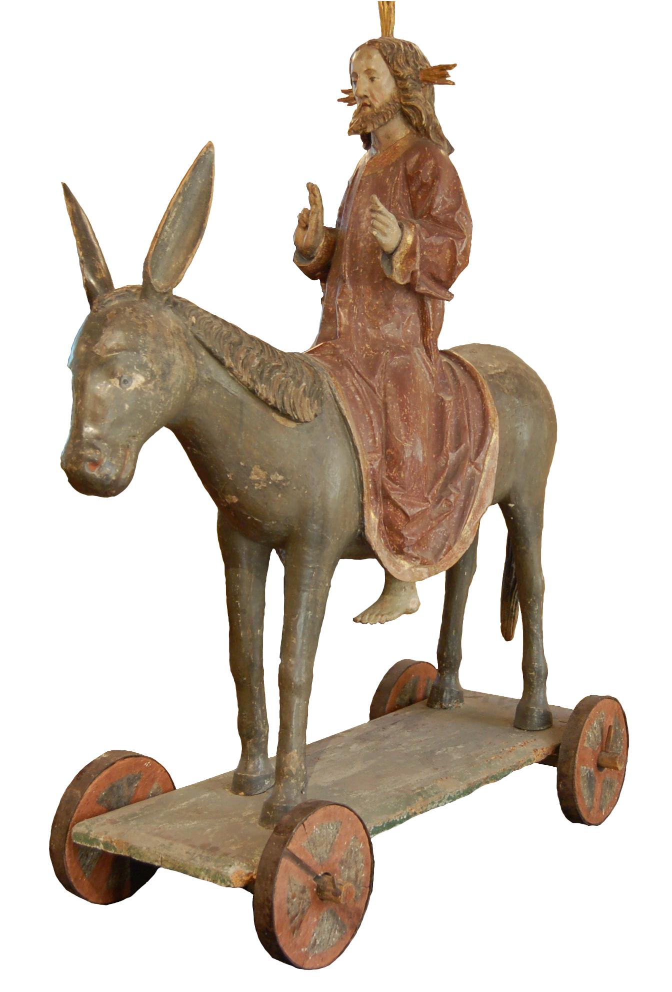 Jesus statue (in coll. Museum of Middle Age - Paris)